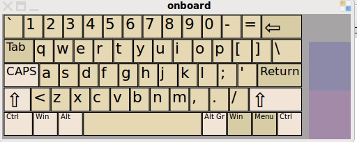 A virtual keyboard on ubuntu linux